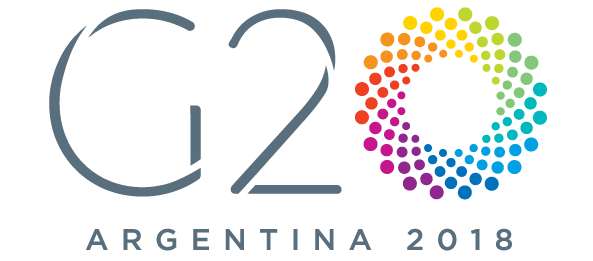 The official logo of the 2018 G20 Buenos Aires summit, which will be held on 30 November - 1 December 2018.